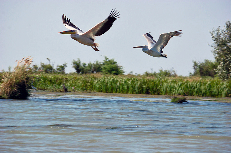 Pelicans on the Danube River in Vylkove